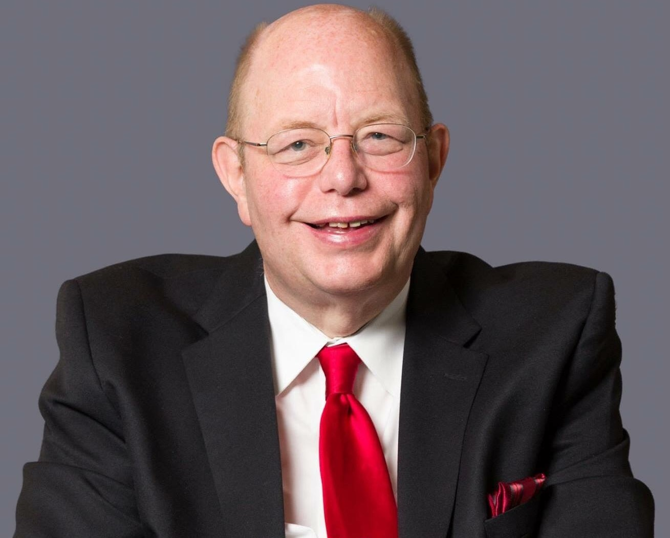 Don McNay - Lexington, KY - 2015